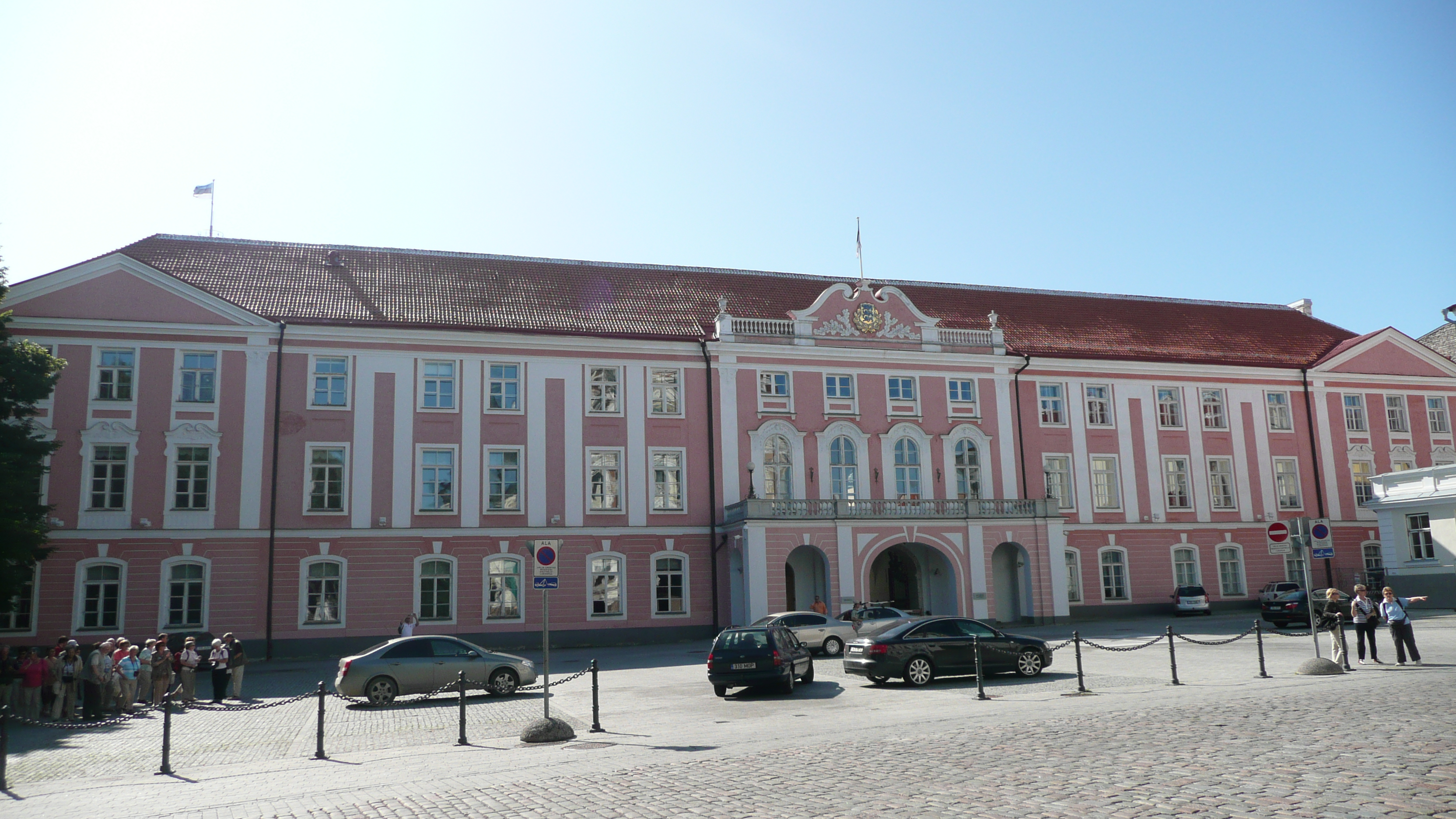 Riigikogu - The Parliament of Estonia